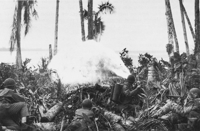 U.S. Army troops fire flamethrowers at Japanese positions during the battle for Munda on New Georgia, 1943.